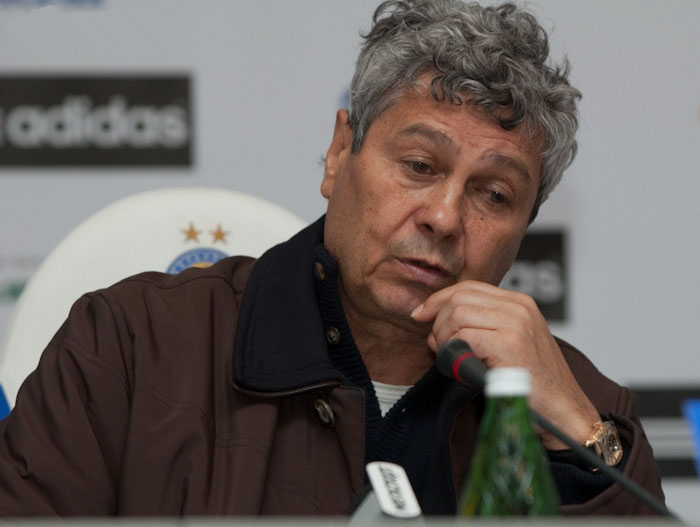 Mircea Lucescu, Romanian football coach, at the press conference after the game of Shakhtar DonetskRomână: Mircea Lucescu, antrenor de fotbal român, la conferinţa de presă după jocul de Şahtior Doneţk